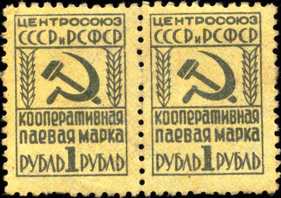 USSR cooperative revenue stamp, USSR and RSFSR Central Union, 1 ruble, 1950s.